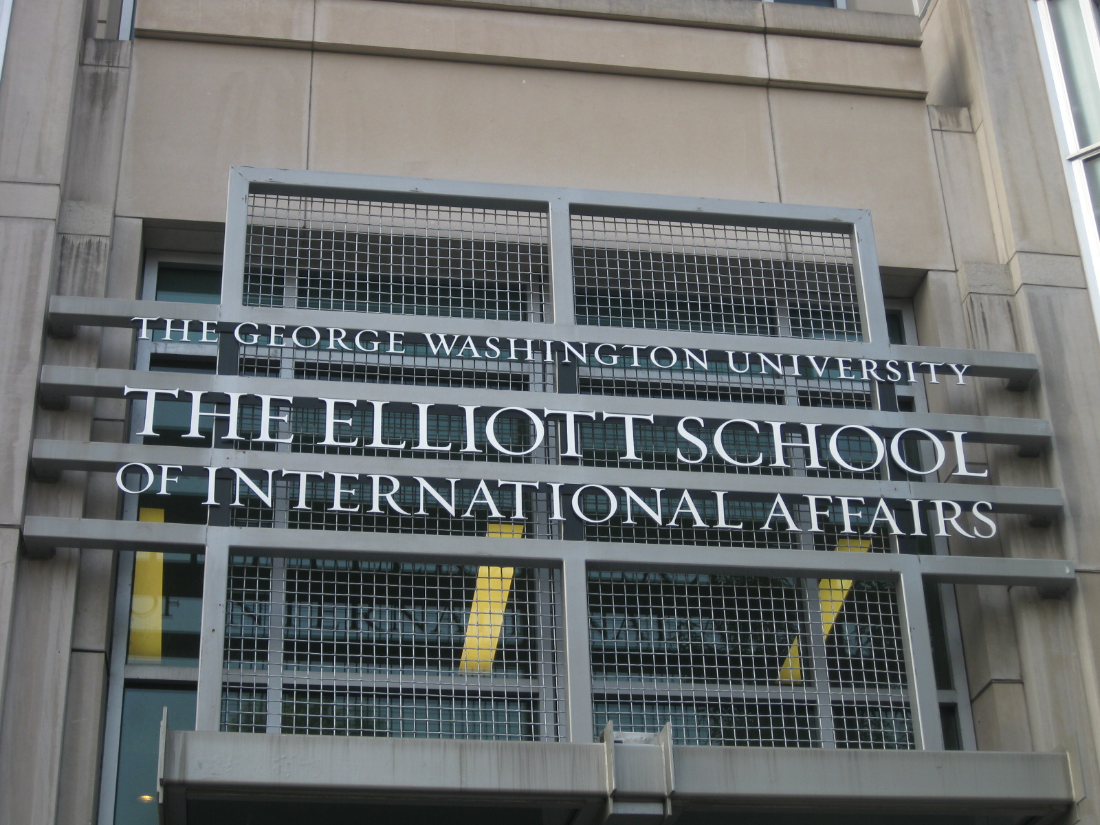 Sign on the Elliott School building, above the entrance.